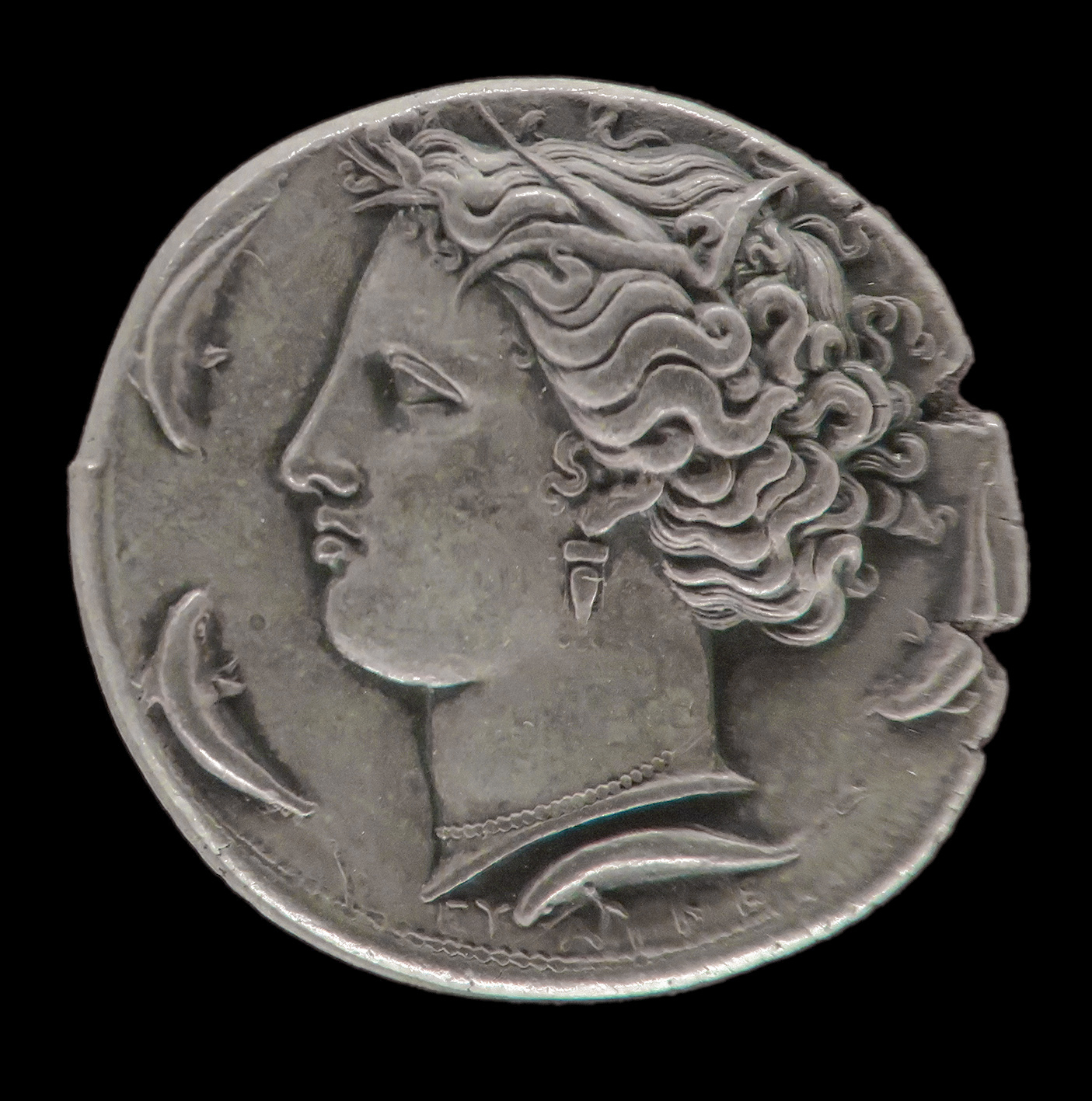 Head of Arethusa left, wearing pendant earring and necklace, four dolphins around. Reverse of a silver decadrachm from Syracuse, Sicilia, minted ca. 400 BCE. Diam. 3.6 cm (1 ¼ in.). Found in the area of Lyon; Giraud Collection, 1911. Musée des Beaux-Arts de Lyon. Inv. GR 71